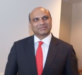 Pallam Raju, Indian Minister of Human Resources Development